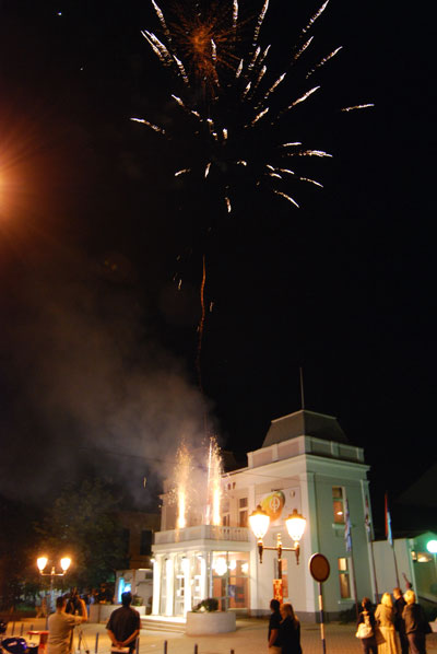 Image of Knjaževsko-srpski teatar, JoakimFest 2009